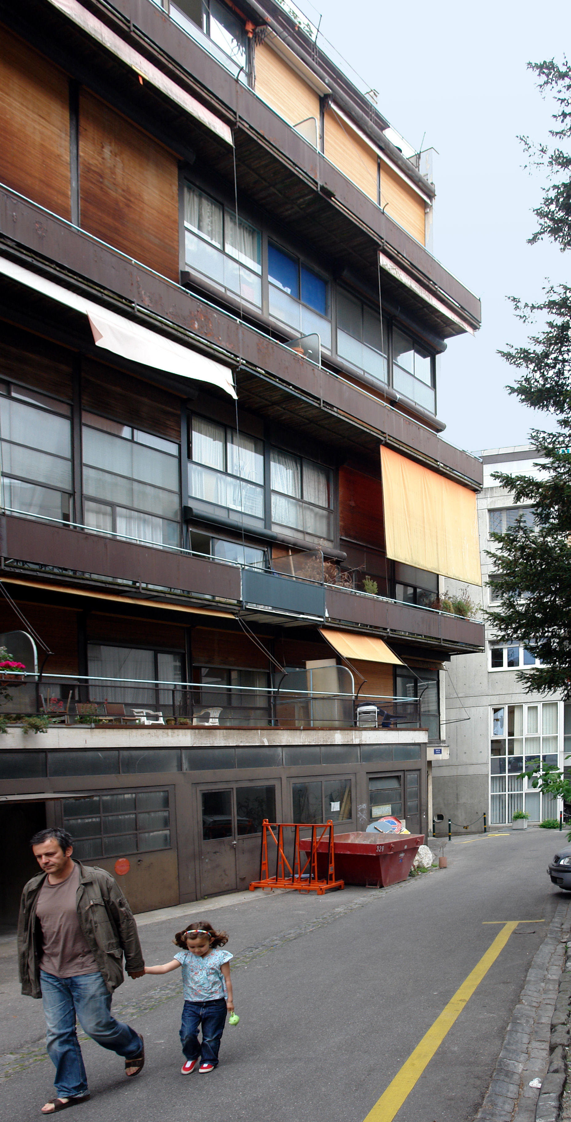 Maison Clarté in Geneva, Switzerland, Architect: Le Corbusier, Year: 1930-32, South Facade